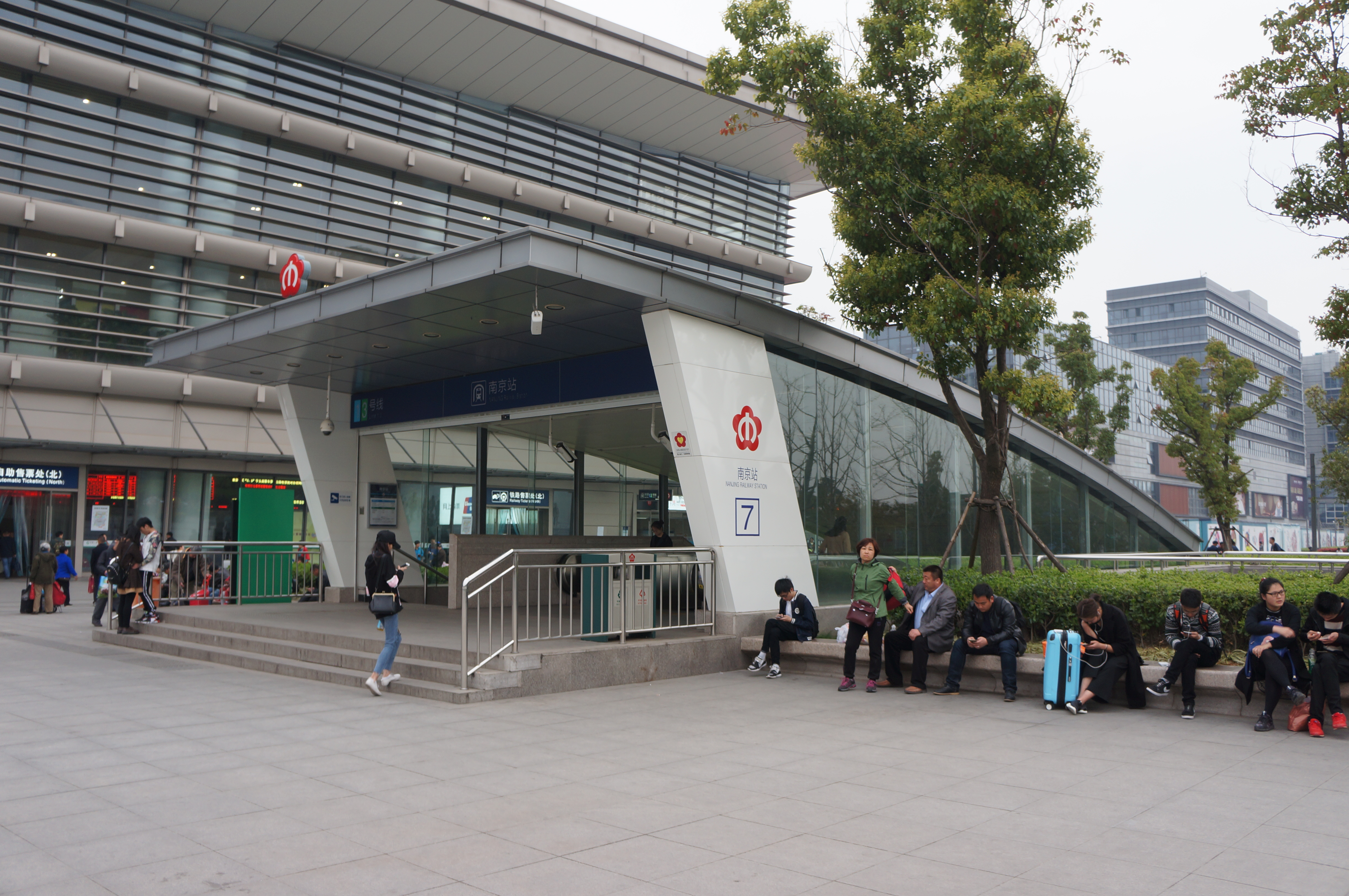 201704 Exit 7 of Metro Nanjing Railway Station